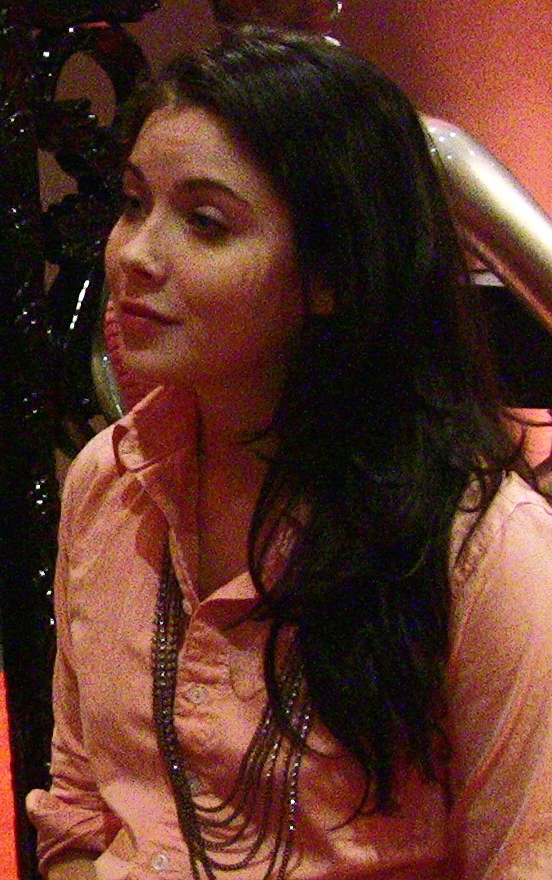 Actress Grace Phipps at the GBK and Tic Tac’s 2011 Emmys Gift Lounge at the W Hotel in Hollywood.